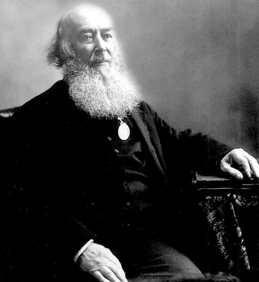 Portrait of Charles Chiniquy 1860s.